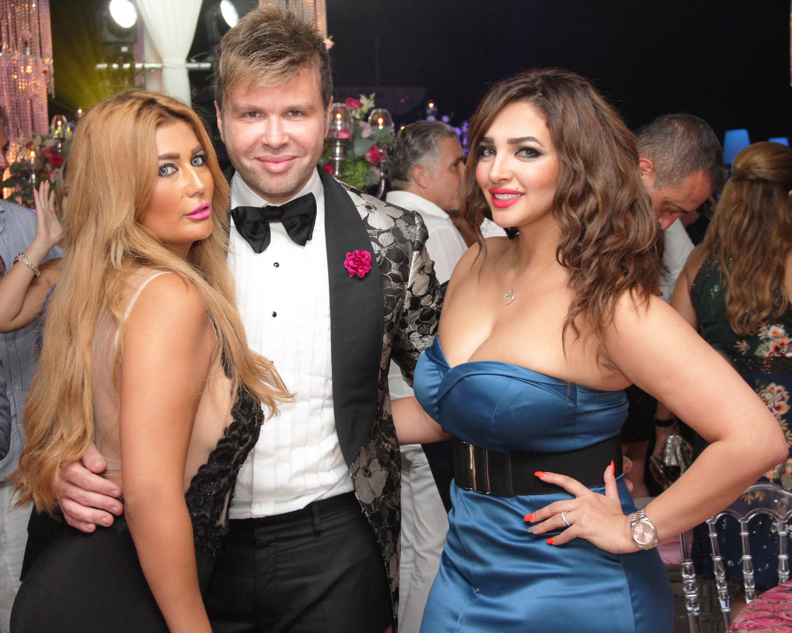 Lebanese fashion designer Nicolas Jebran during Lebanese singers concert in InterContinental Carlton Cannes Hotel